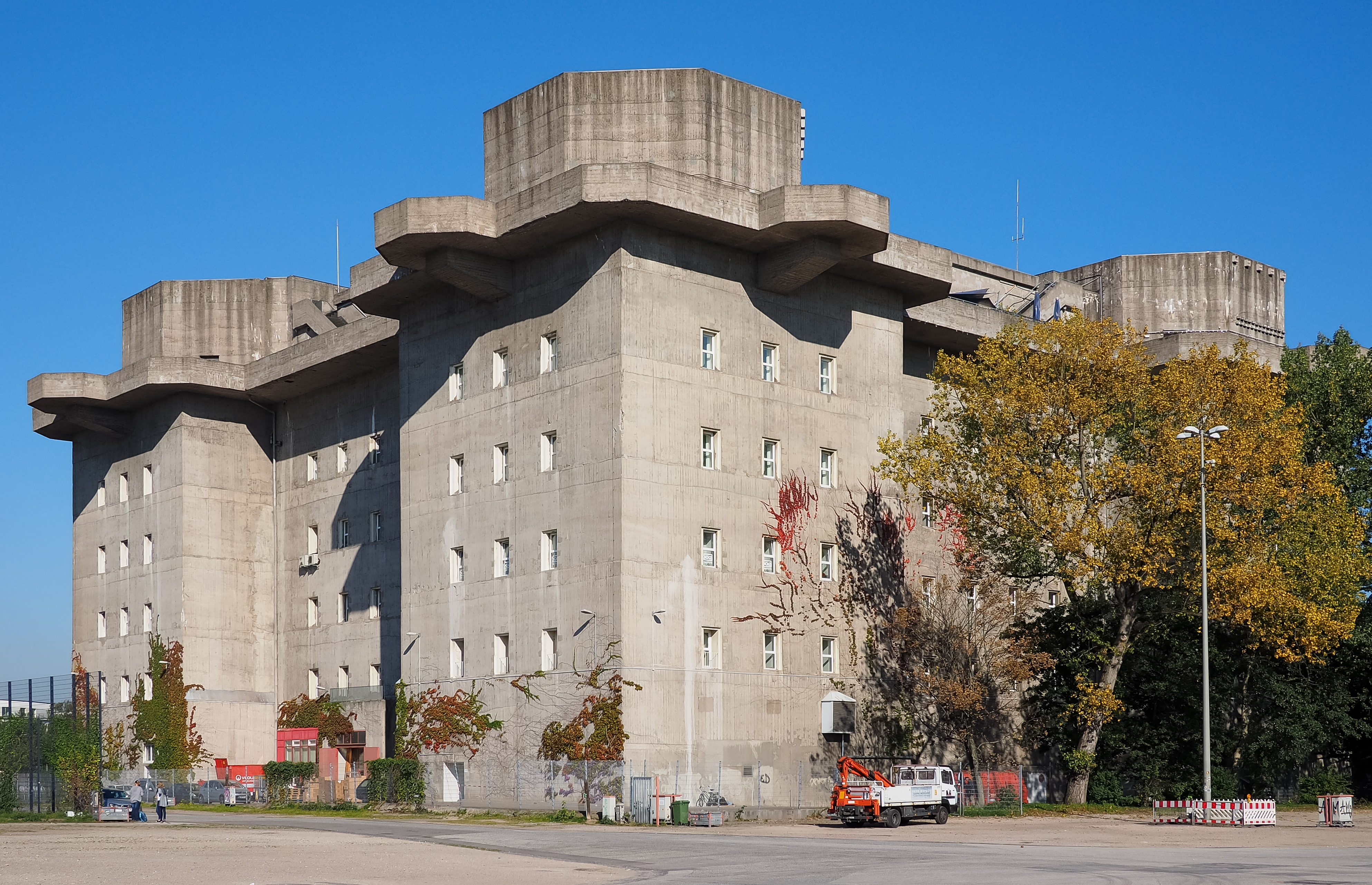 Flakturm IV in Hamburg viewed from the south east